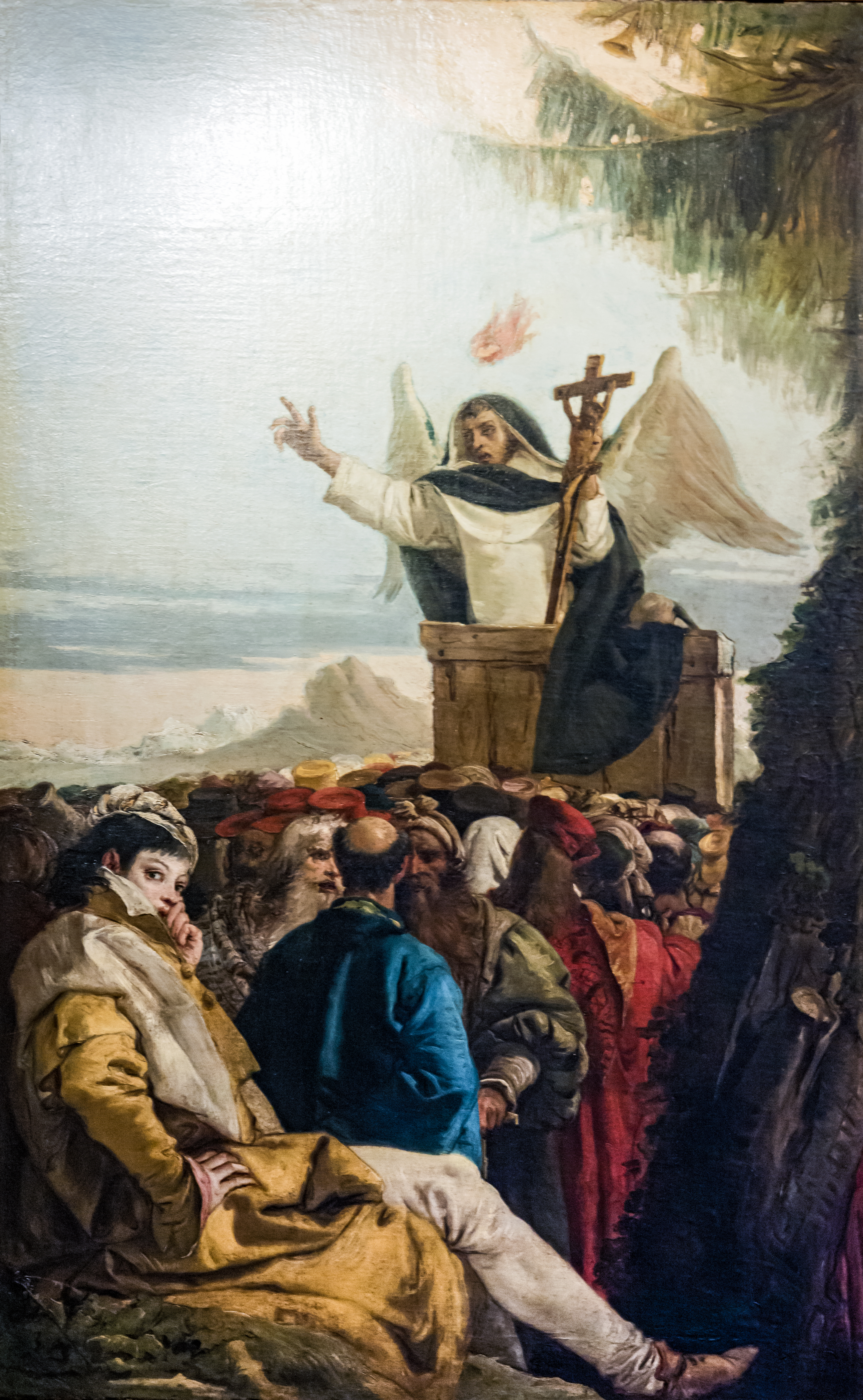 San Polo (church) - Oratory of the Crucifix St Vincent Ferreri preaches to the crowd by Giandomenico Tiepolo. Oil on canvas (1745 -1749).